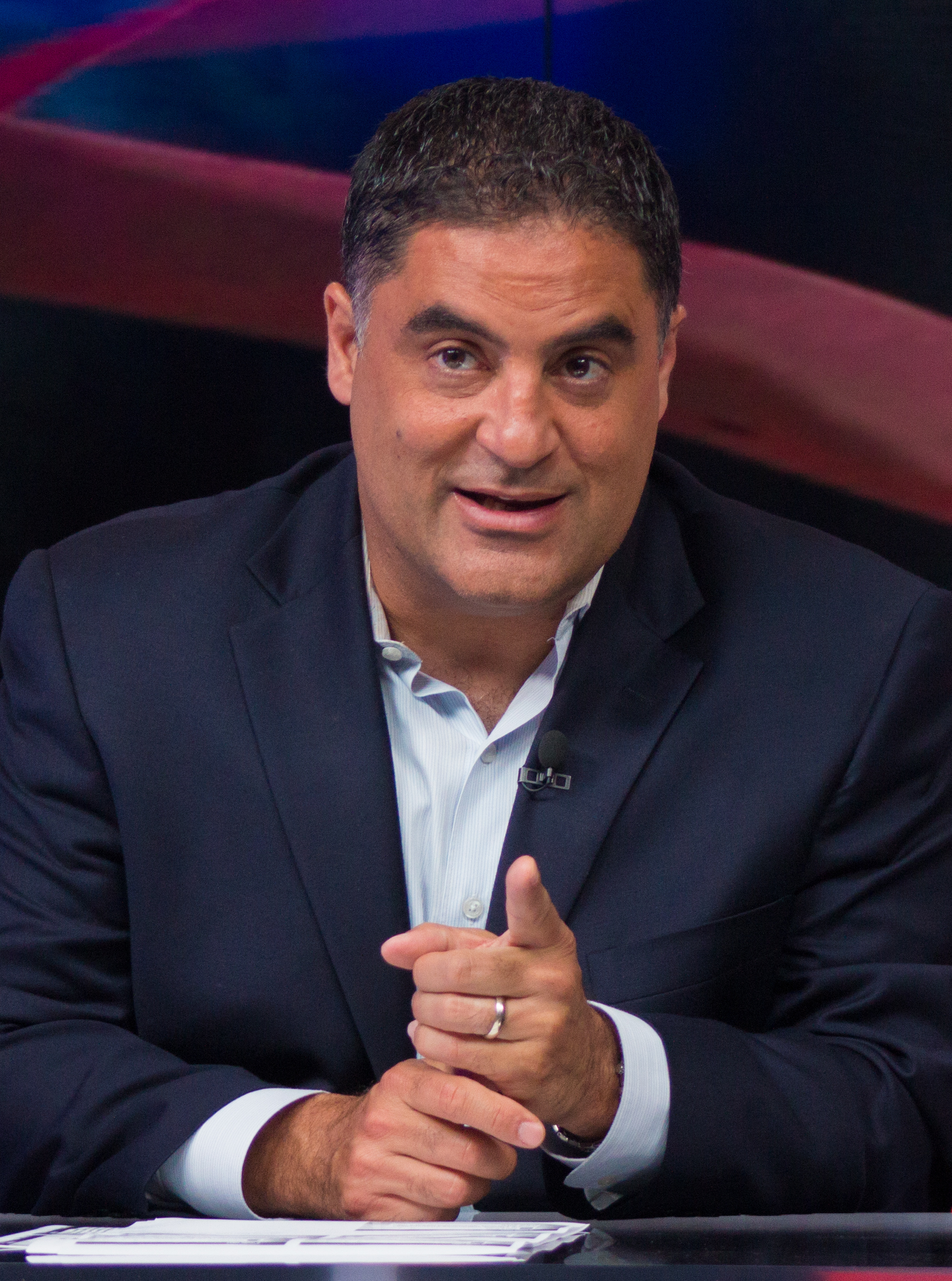 Cenk Uygur in 2015